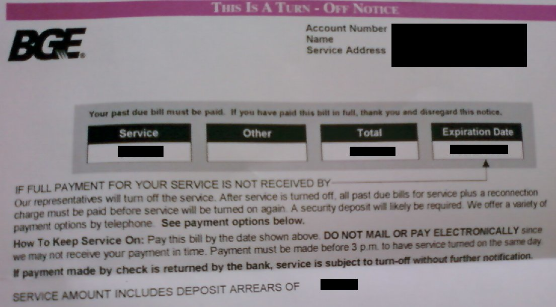 A sample turn-off notice issued by a utility company. The customer who it was issued to authorized its use provided that all of the customer's personal information and the amounts listed be blanked out.